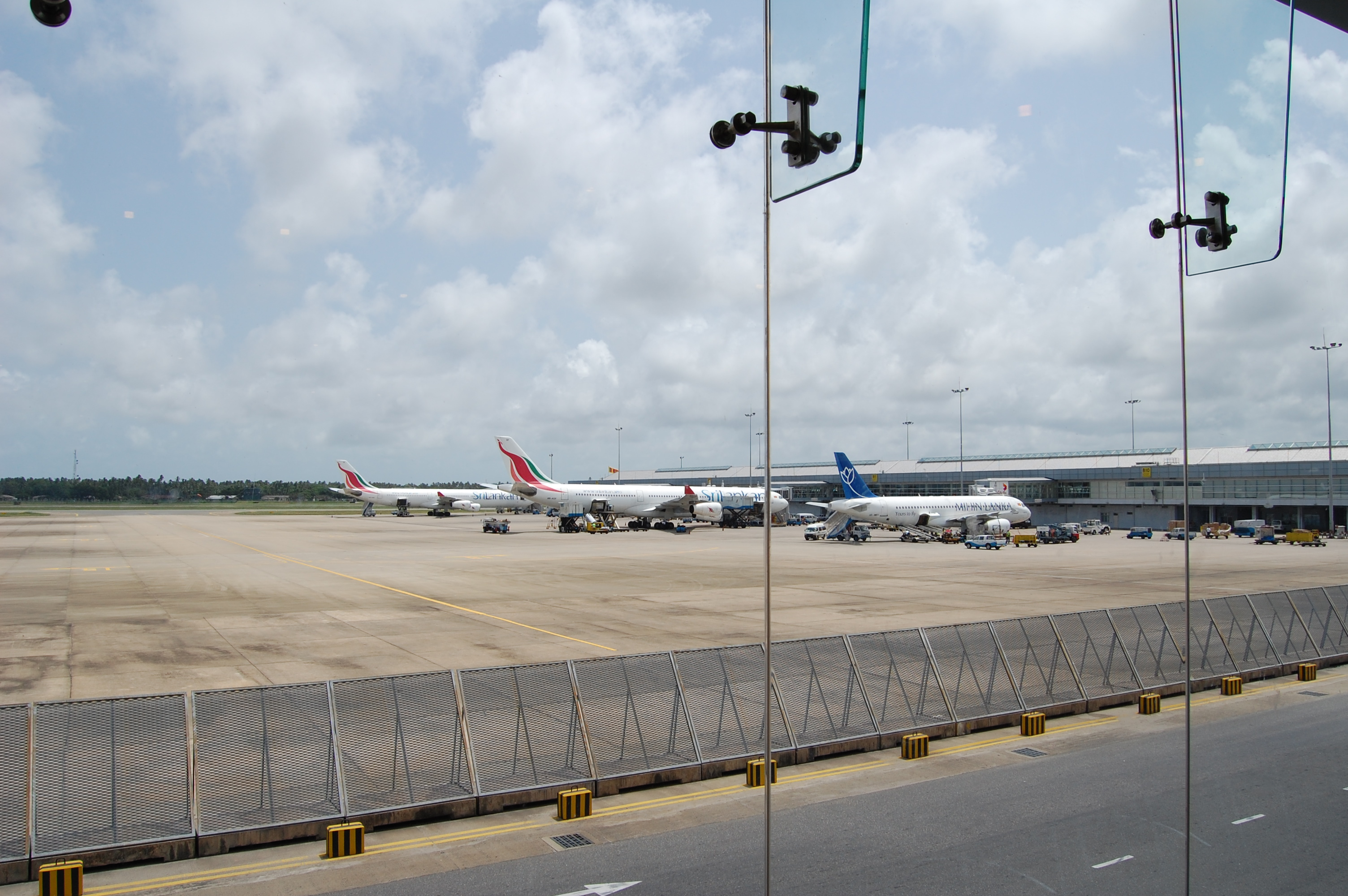 The ramp area of Bandaranaike International Airport in Colombo, Sri Lanka